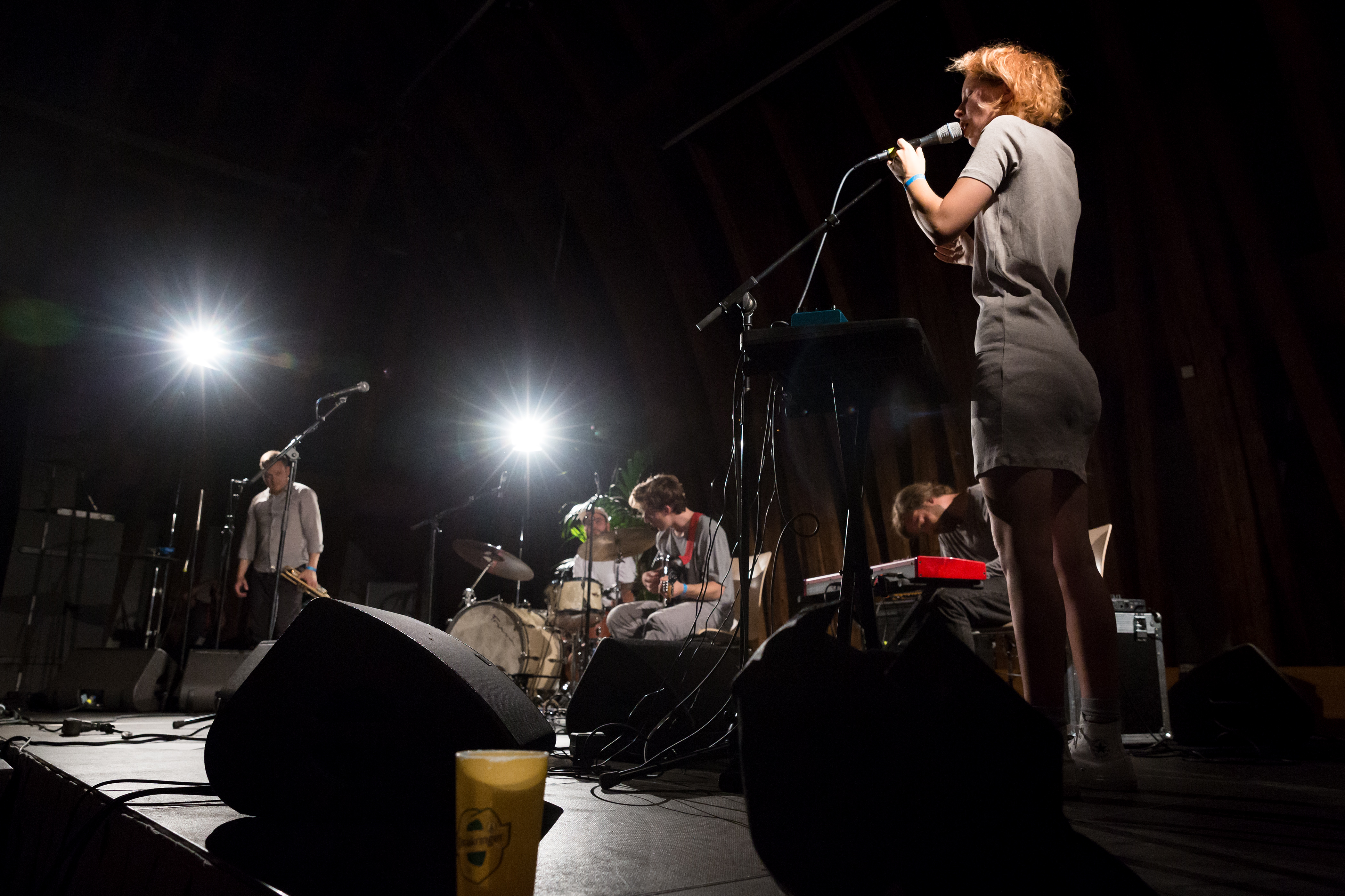 5K HD, concert at Kuppelsaal of the historical building of todays TU Wien in Vienna, Austria, at Popfest 2017.